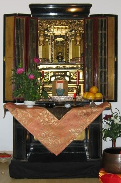 Butsudan at ShinDo Buddhist Temple Photograph by Gakuro